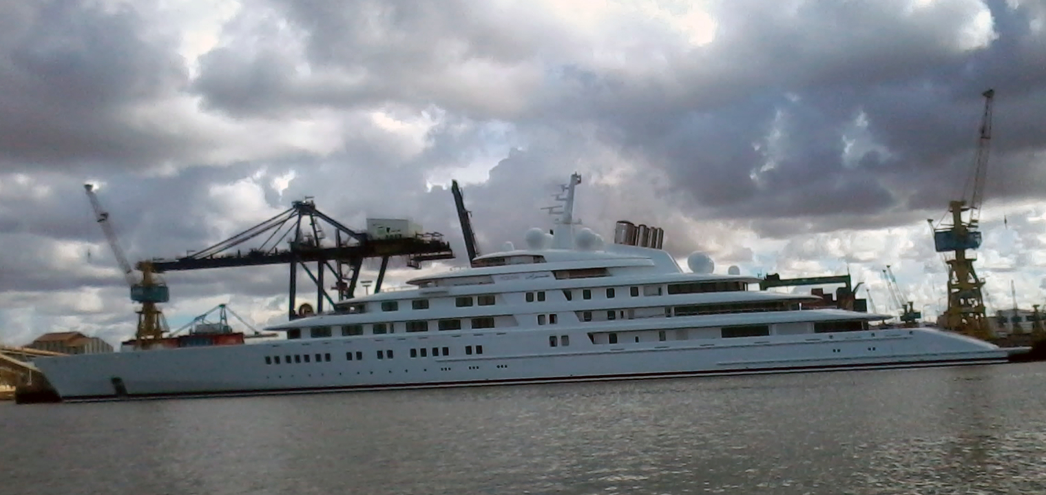 cropped version of